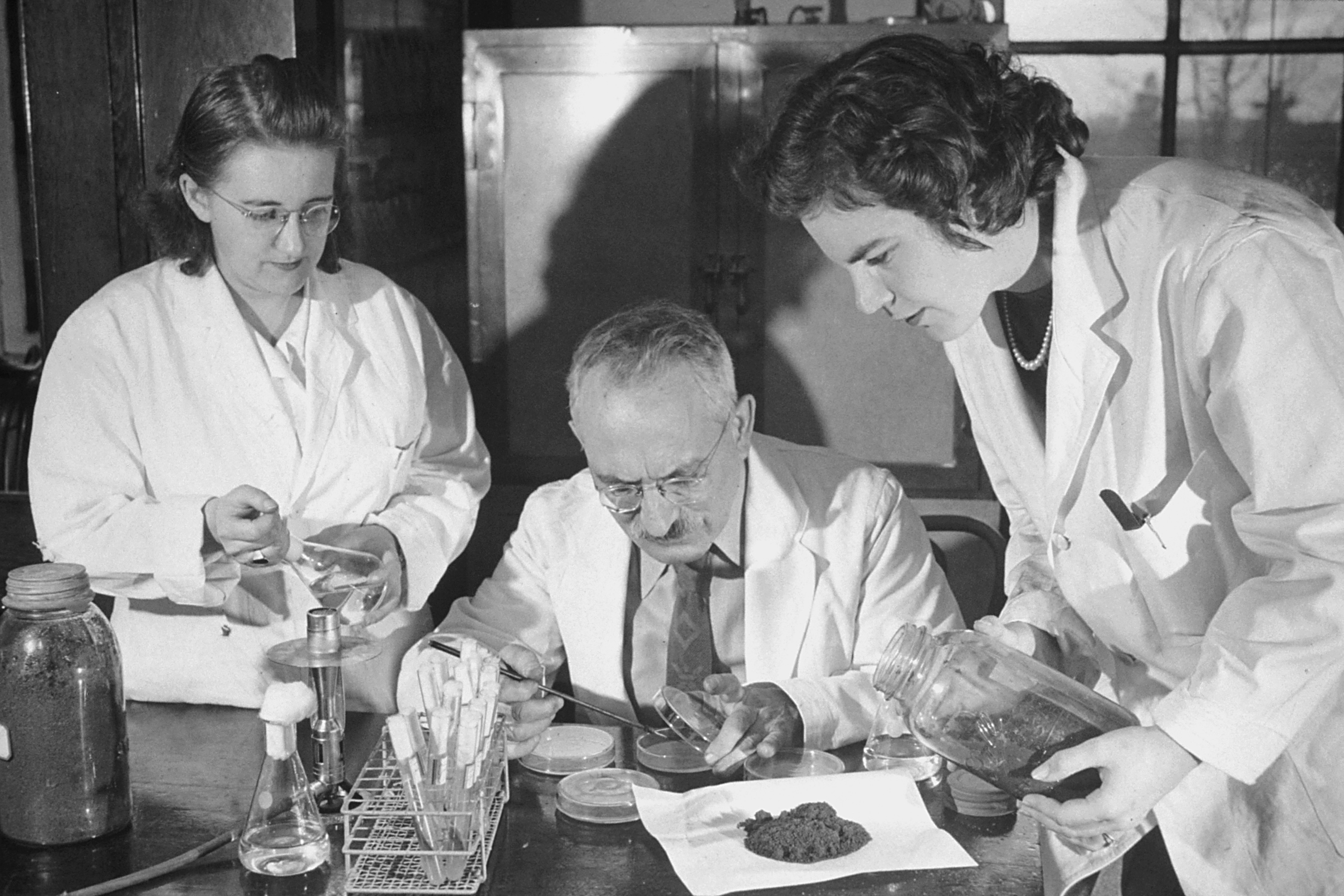 Title Waksman, Selman Description Selman Waksman and two female associates testing Streptomycin, a bacterial antibiotic produced by the soil actinomycete - chiefly used in the treatment of tuberculosis. New Jersey Agriculture Experimental Station at Rutgers University. Topics/Categories Historical, People Type B&W, Photo Source G. Terry Sharrer, Ph.d. National Museum Of American History.